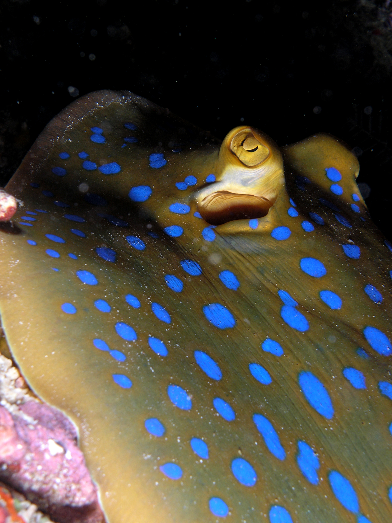 Blue spotted ray (Taeniura lymma in Komodo National Park